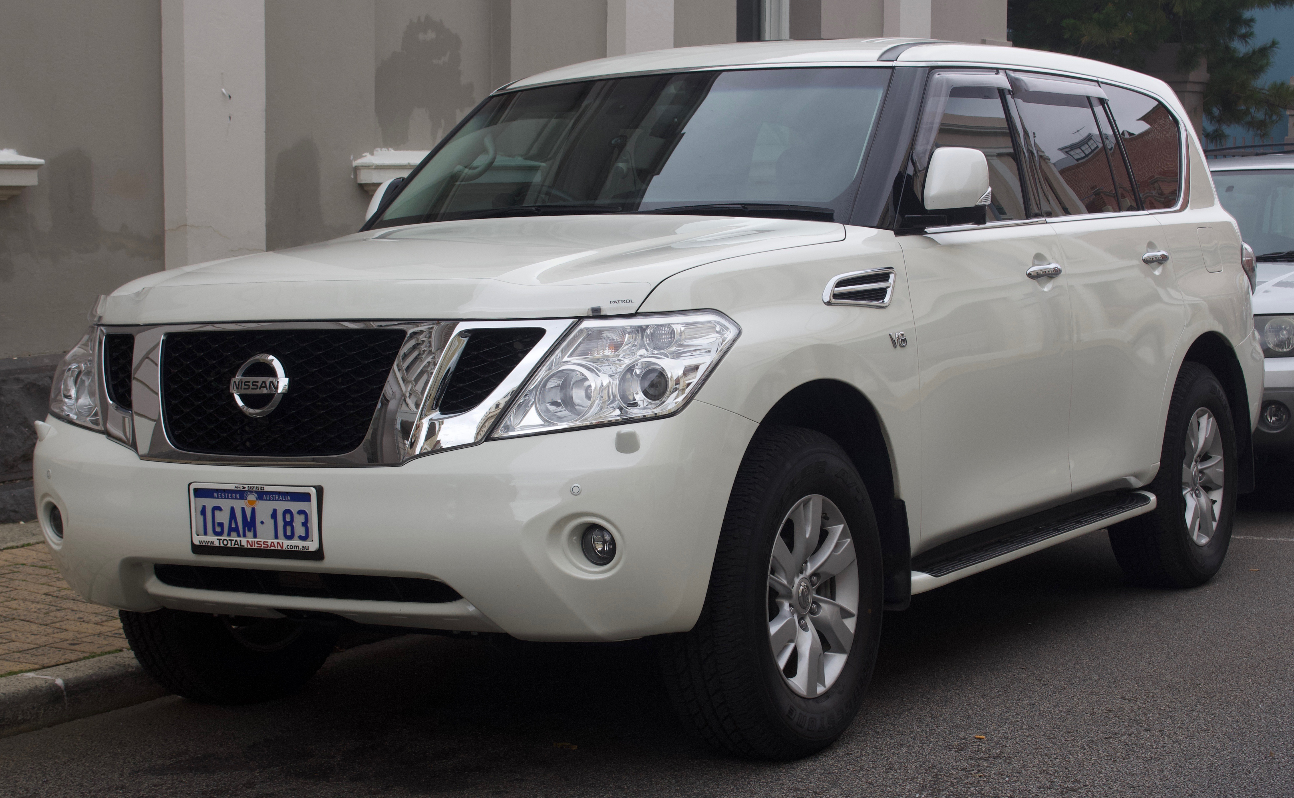 2016 Nissan Patrol (Y62) Ti-L wagon. Photographed in Fremantle, Western Australia, Australia.